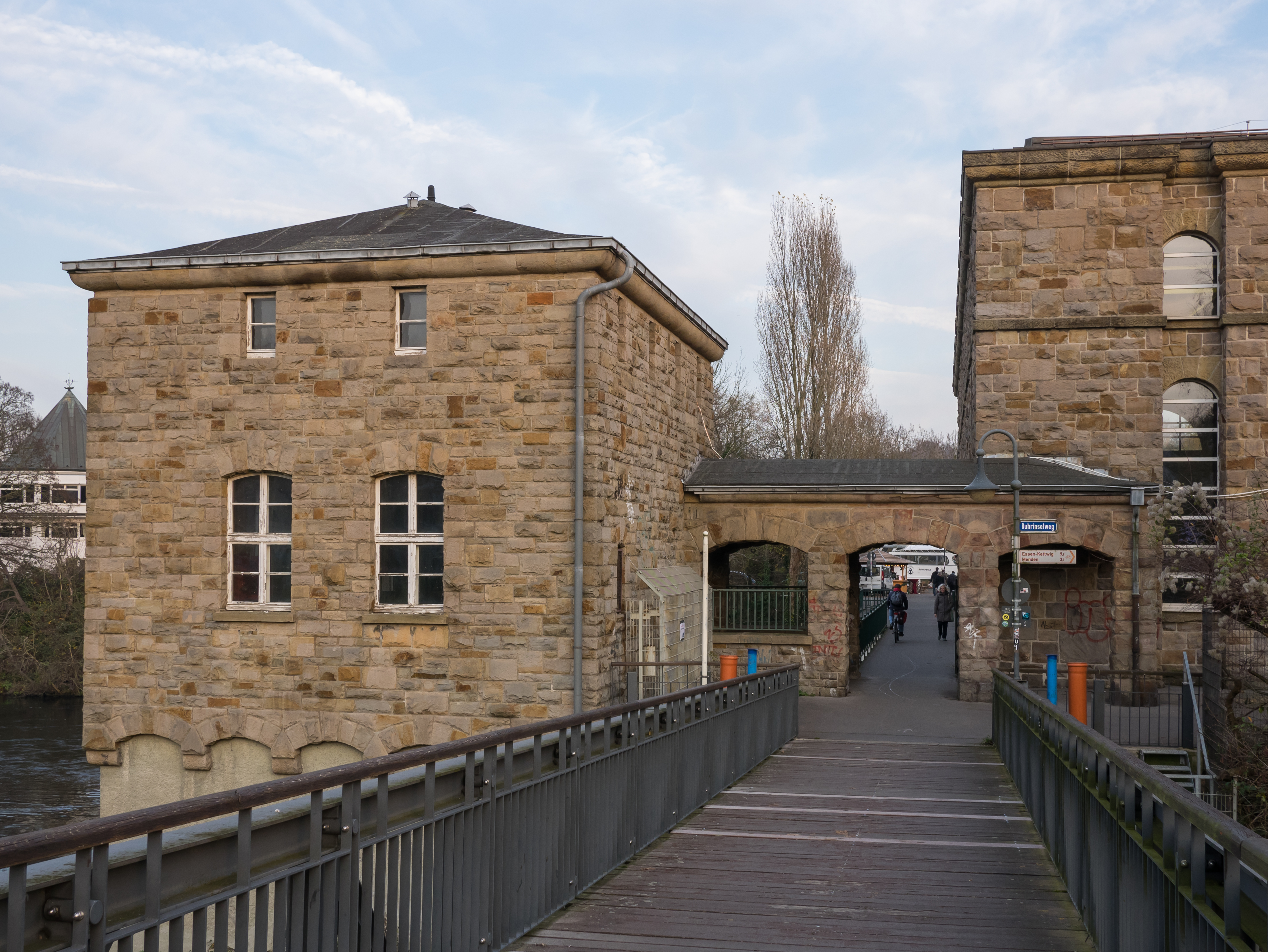 Kassenberg bridge and repump station at the hydrodynamic power station Kahlenberg. Mülheim/Ruhr, NRW, Germany